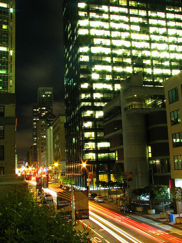 Golden Gate University building on Mission Street in San Francisco.